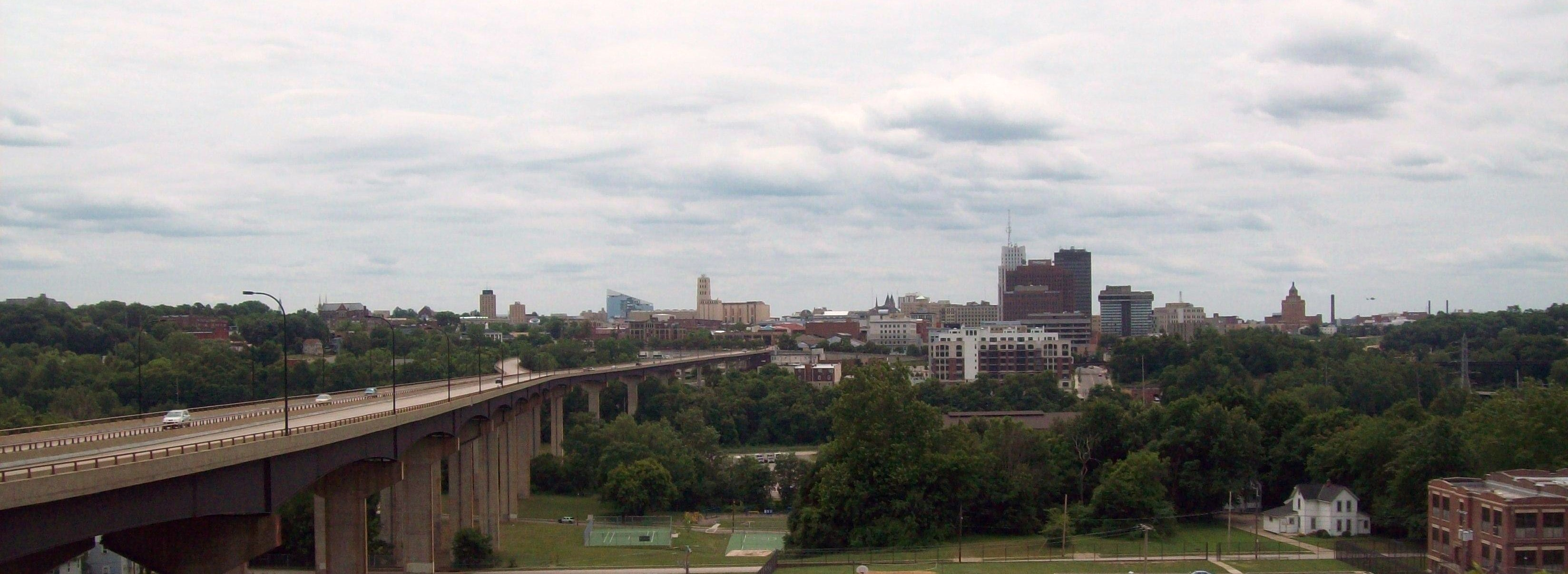 Panoramic view of Akron, Ohio as seen from the north across the Little Cuyahoga Valley.